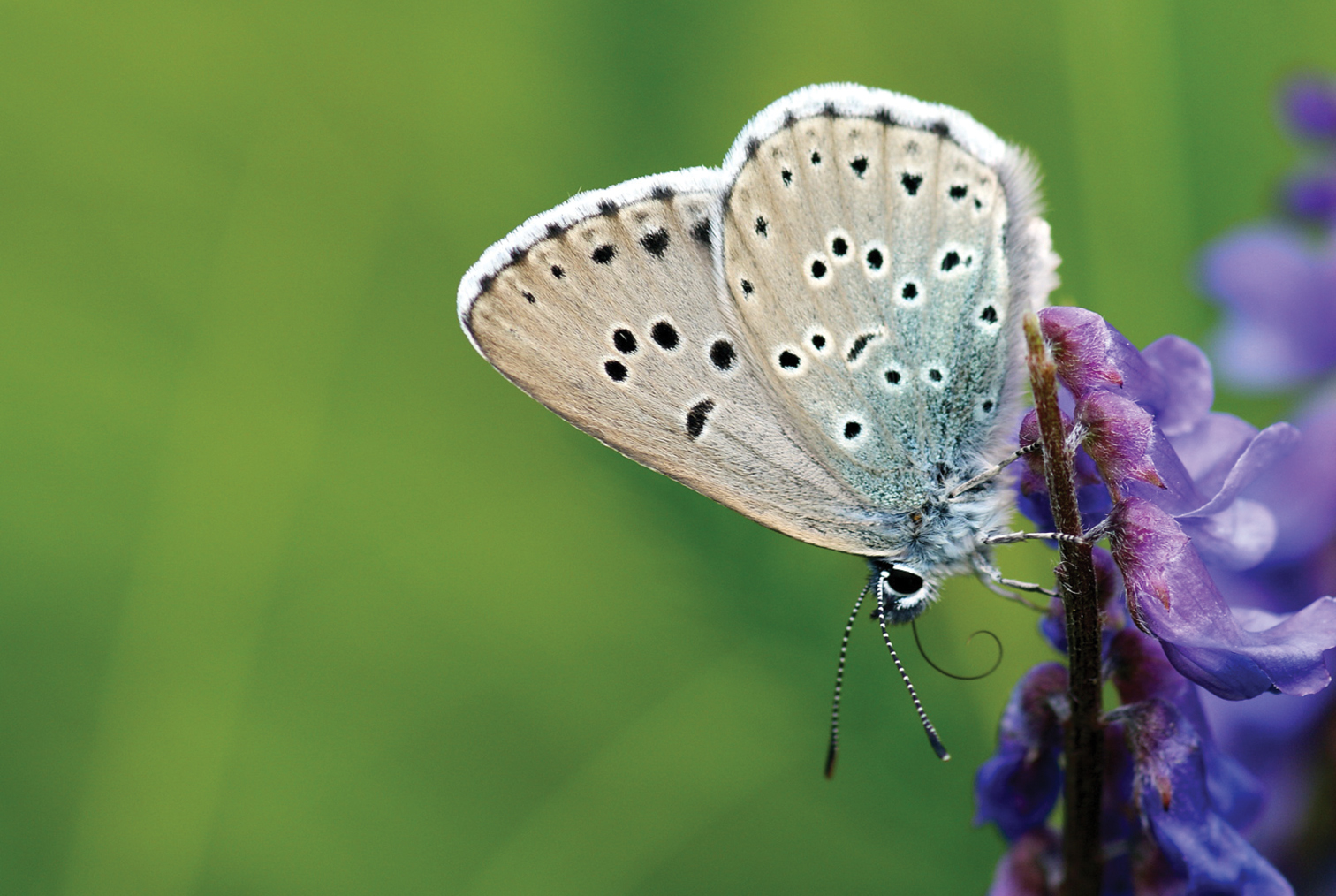 Phengaris arion.